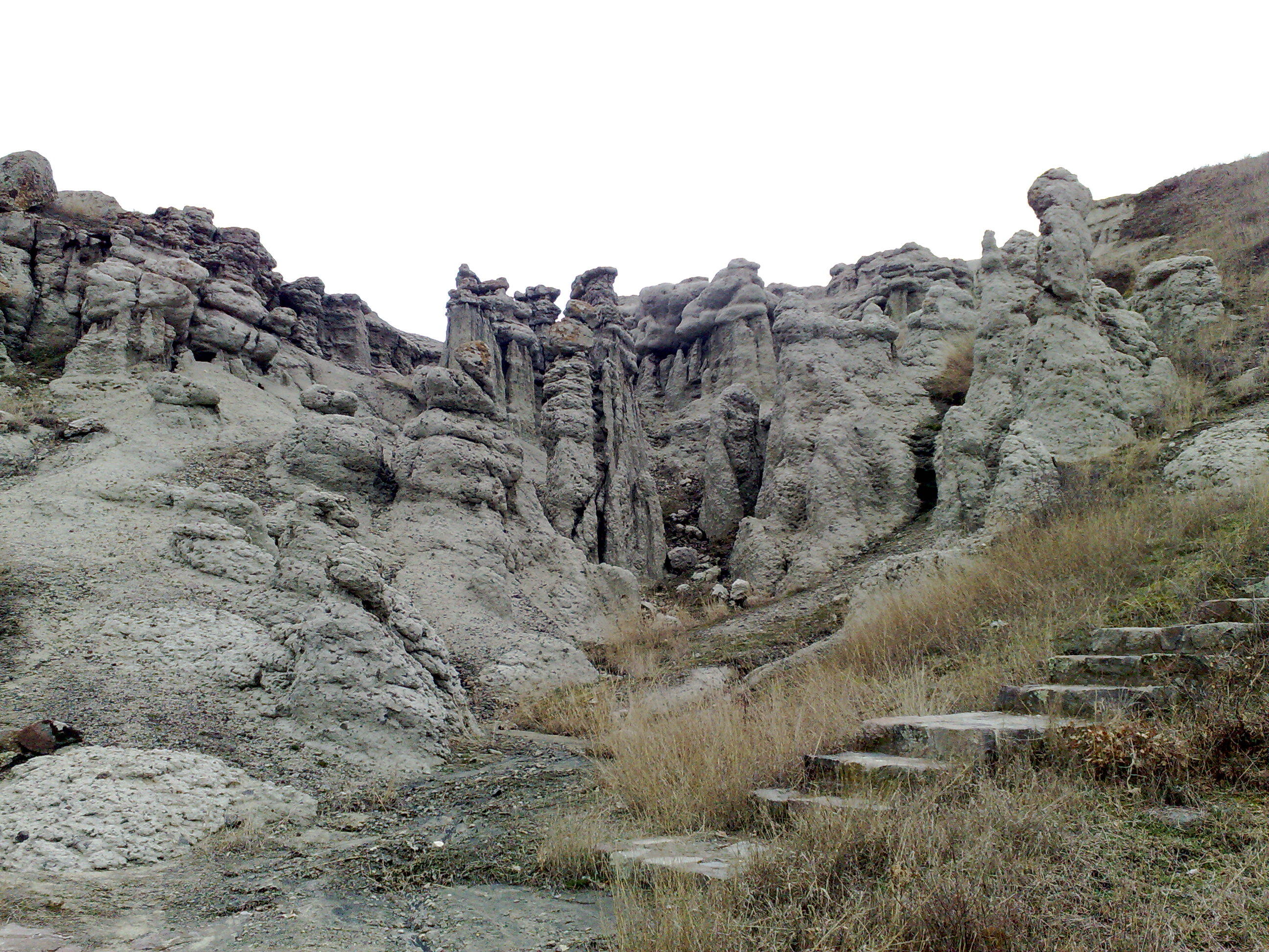 Stone Dolls, Kuklica, Macedonia Ова е фотографија на природна област во Македонија со код: C26 This is a a photo of a natural area in Macedonia with id: C26